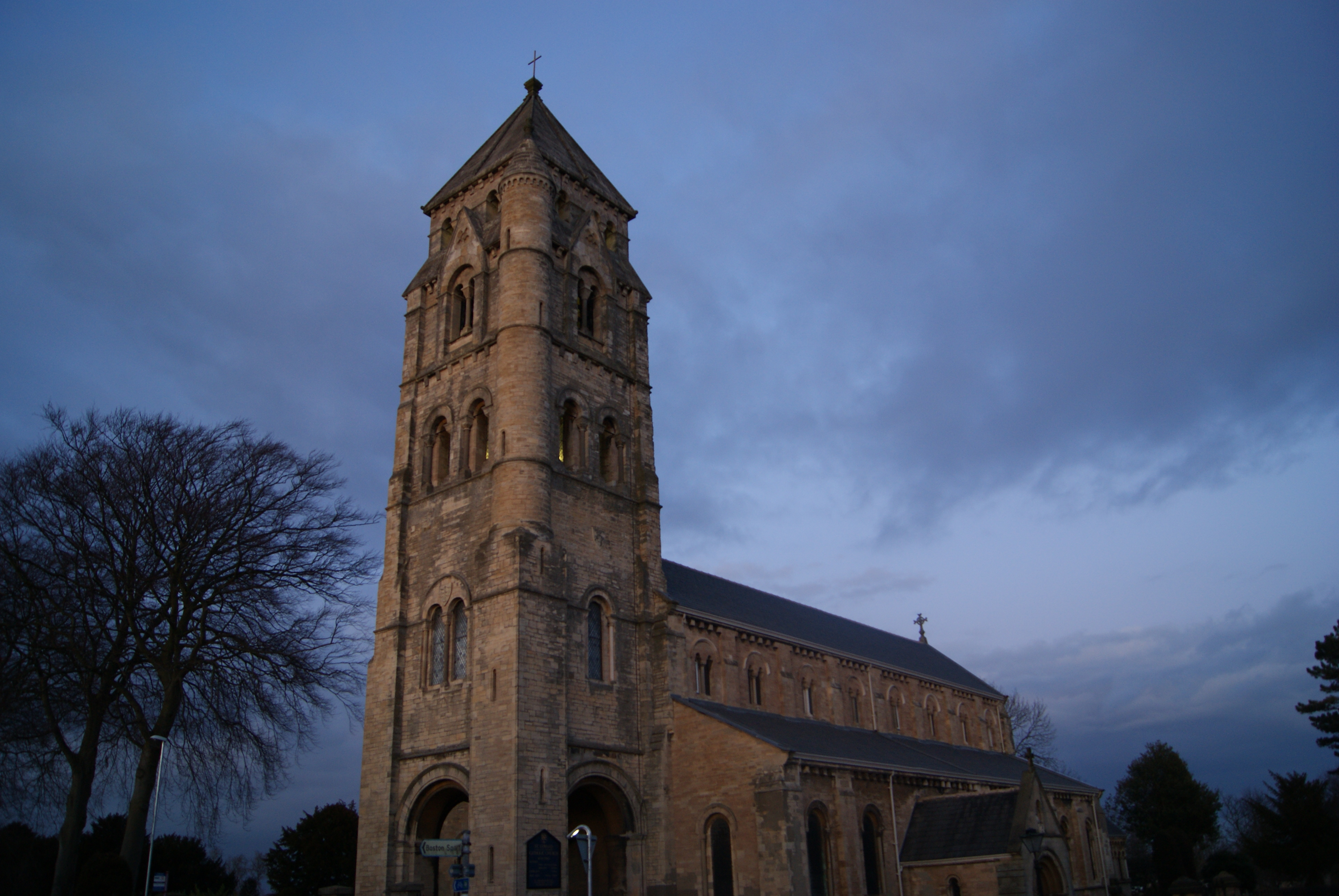 St Edward King and Confessor Catholic Church, Clifford, West Yorkshire. Taken from across the High Street on the evening of the 1st of March 2010.